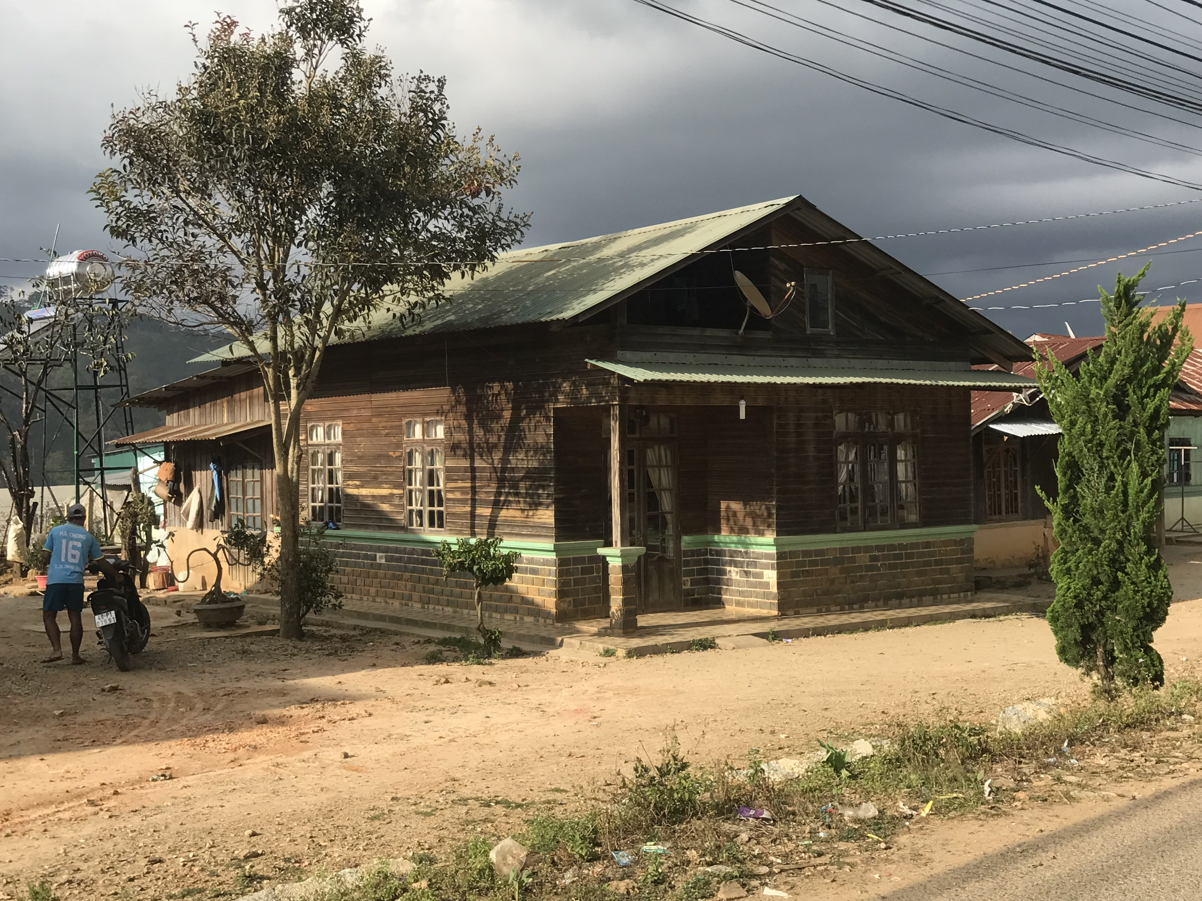 House of K'ho Lat people in Da Nghit